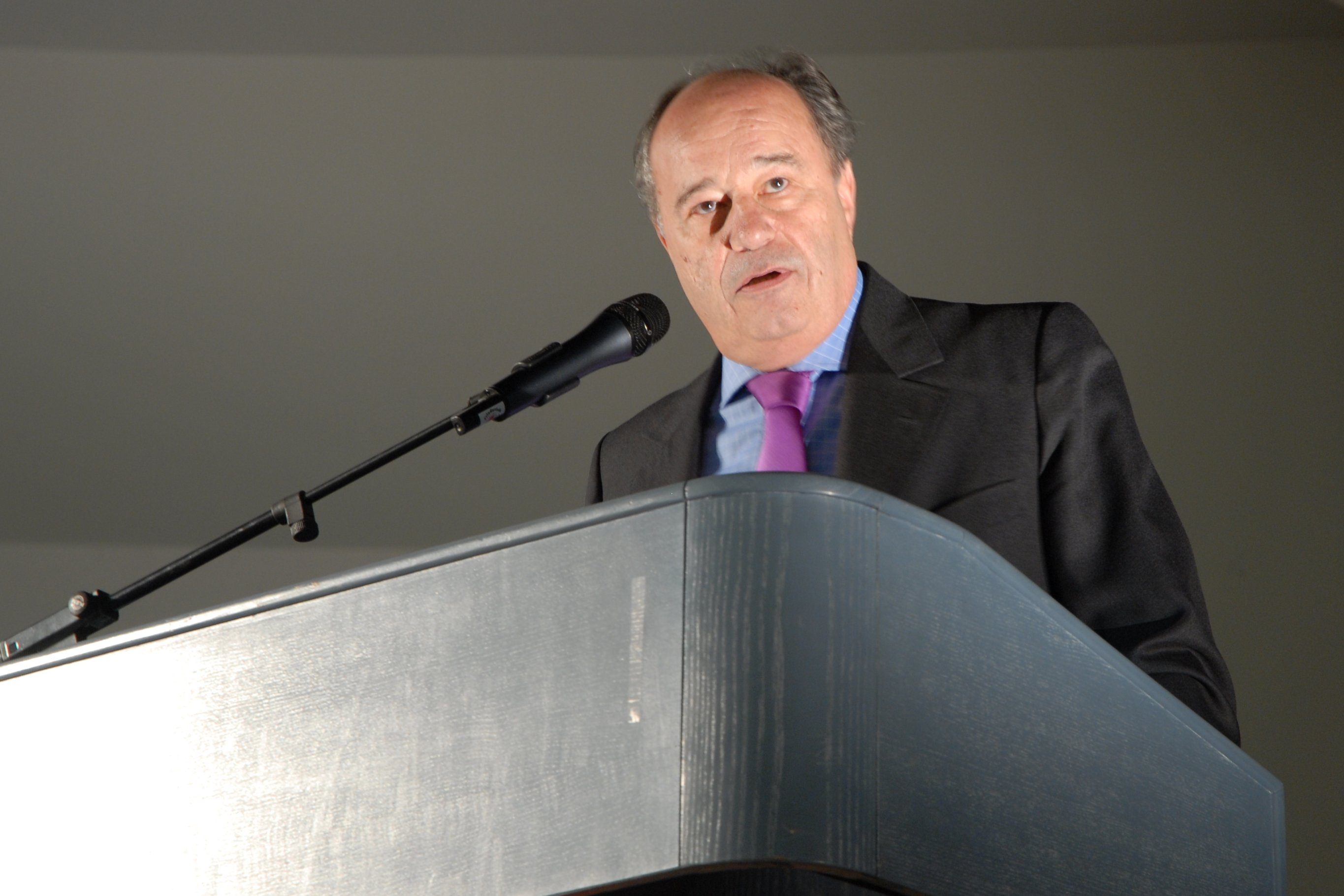 Jean-Michel Baylet (French politician) during Dominique Strauss-Kahn's meeting in Toulouse on April, 13th 2007 where he was promoting Ségolène Royal's candidacy for the 2007 presidential election.